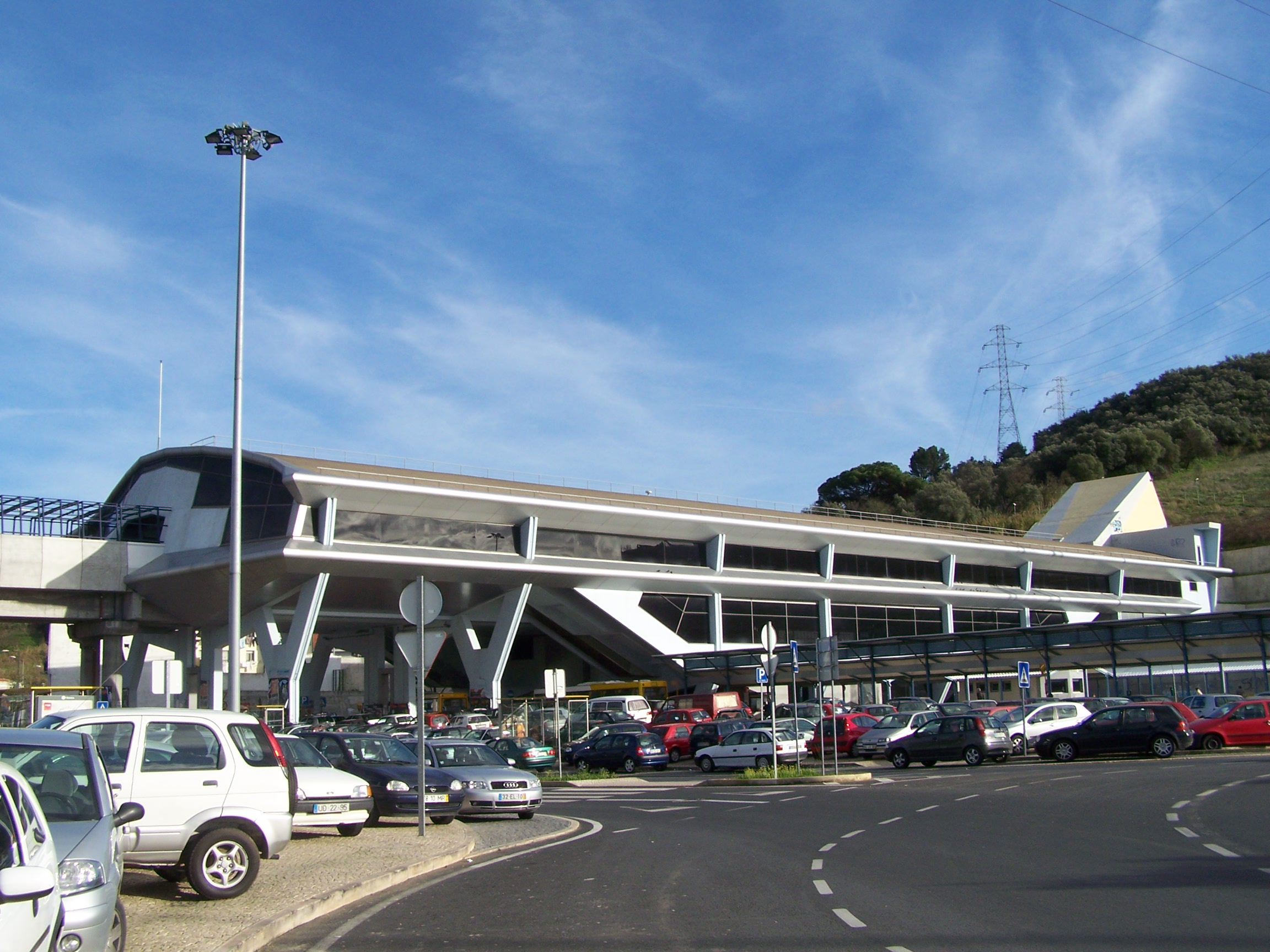 Senhor Roubado metro station (Yellow Line), Odivelas, Greater Lisbon, Portugal